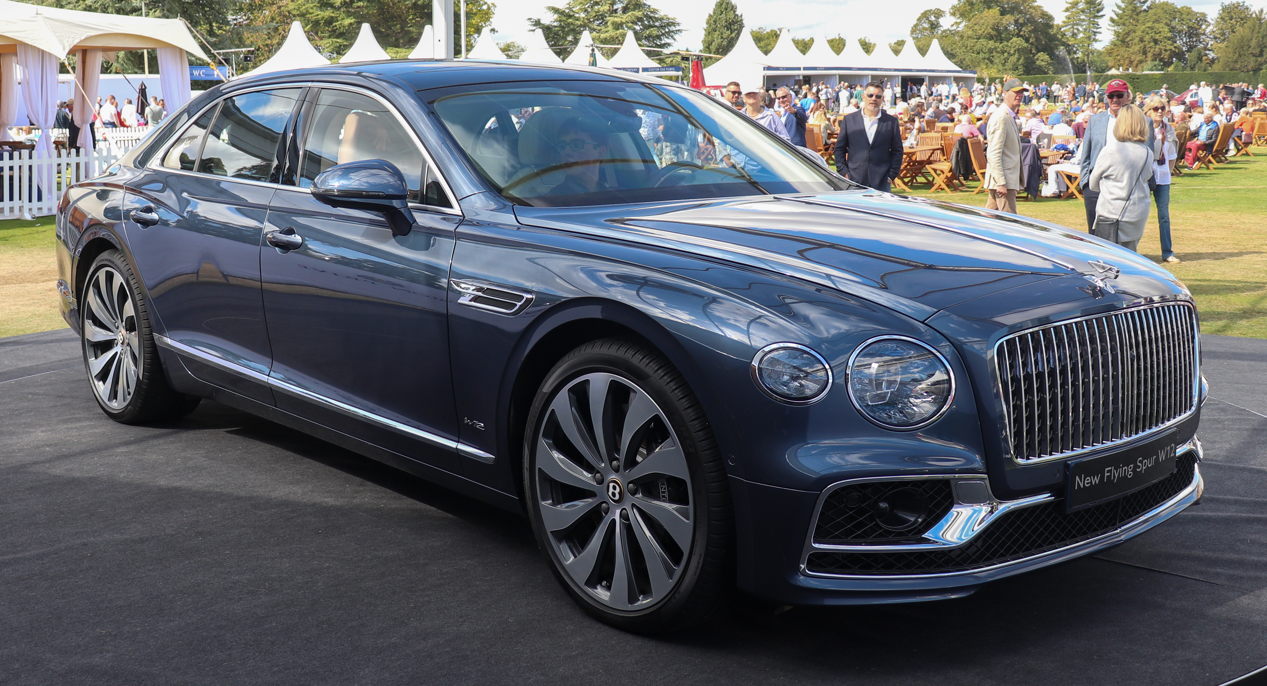 2019 Bentley Flying Spur W12 Front Taken at the Salon Privé Concours d'Elegance Classic Car Motor Show 2019, Blenheim Palace